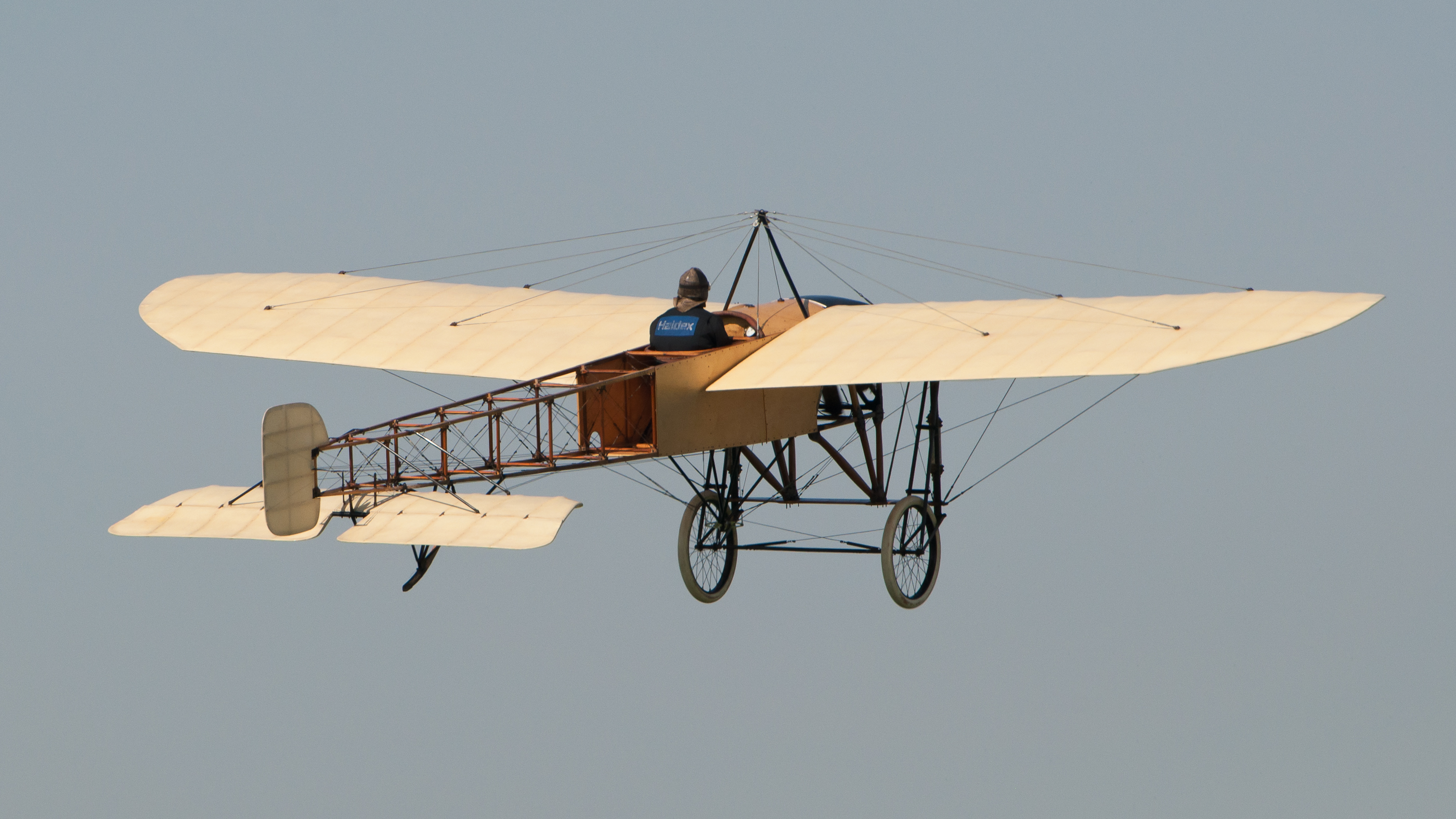 Mikael Carlson's Blériot XI/Thulin A 1910 (first takeoff after restoration: 1991, 7-cylinder Gnôme-Omega 50 hp rotary engine).